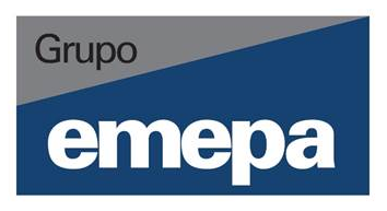 Logo of Argentine consortium Grupo Emepa, a railway company